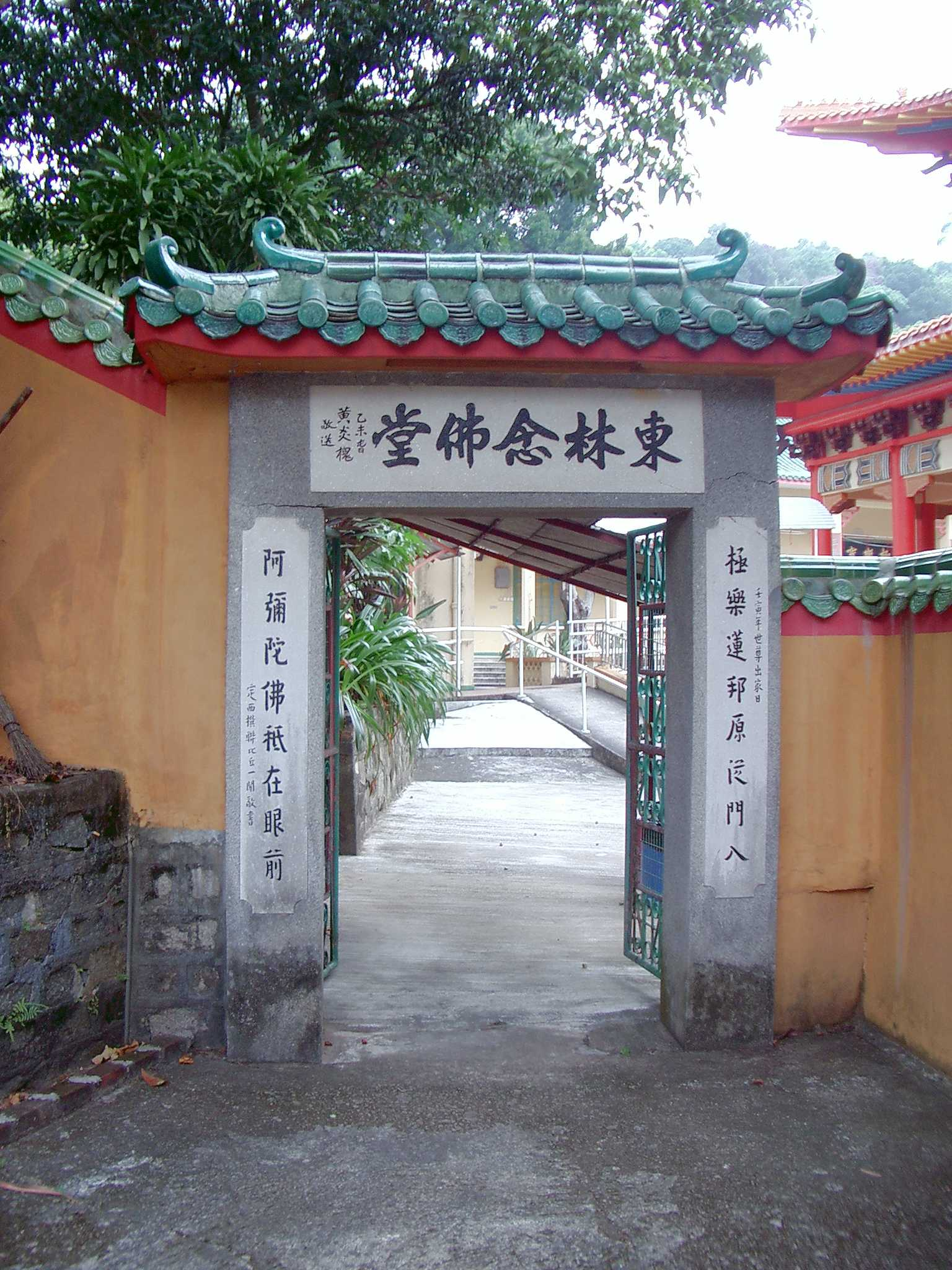 Main Gate of Tung Lum Nieh Fah Tong Fu Yung Shan Tsuen Wan Hong Kong